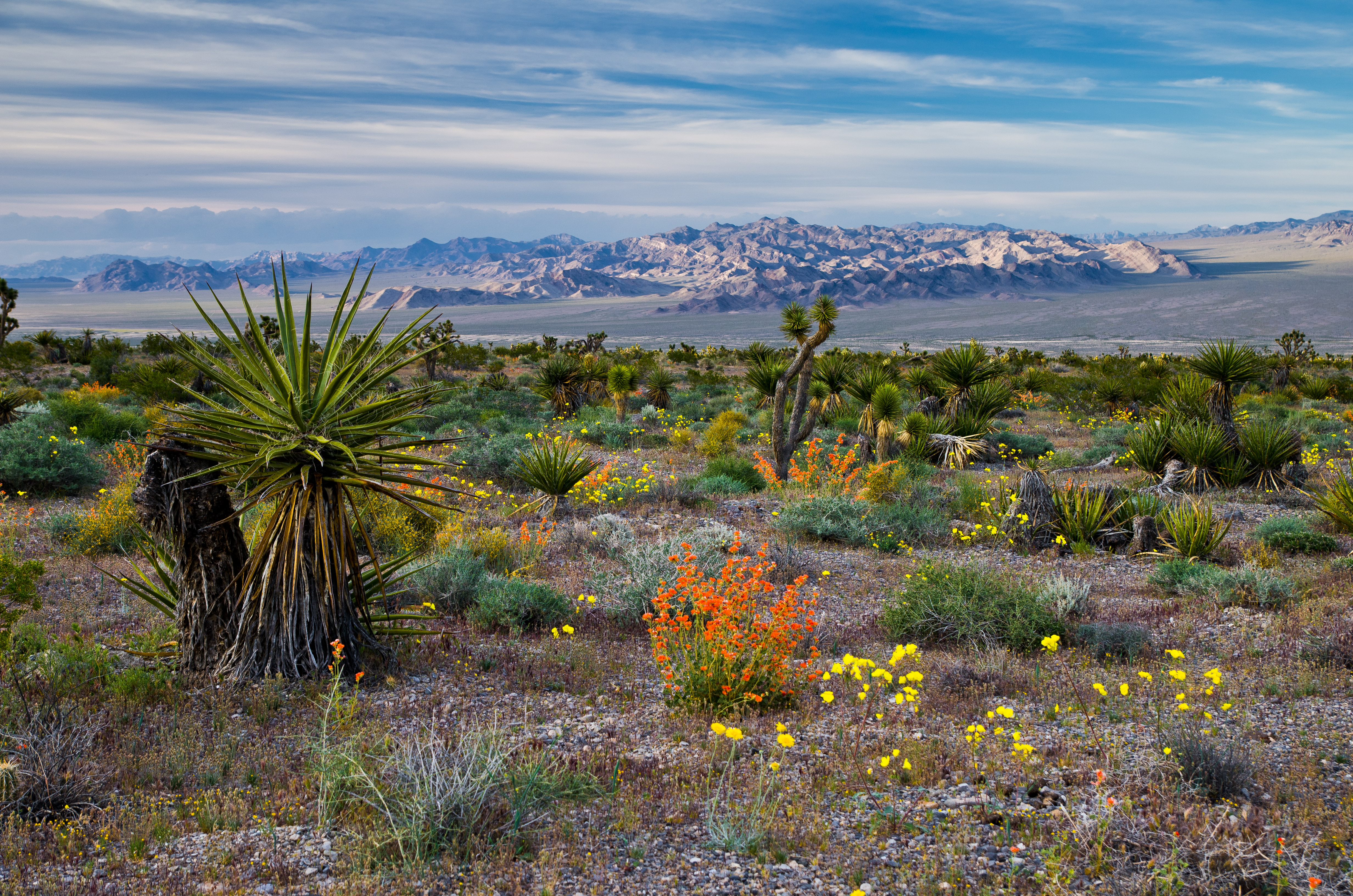 Image: Spring Flowers in Red Rock Canyon National Conservation Area Location: Red Rock Canyon National Conservation Area BLM District: Southern Nevada District Photographer: Michael Balen